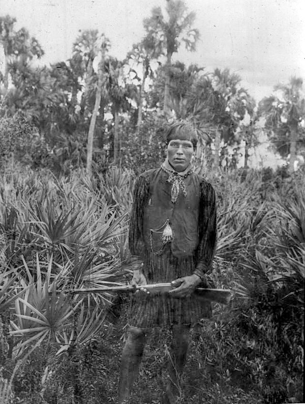 Photograph of Charlie Cypress, Seminole, in the Everglades. Taken 1900.